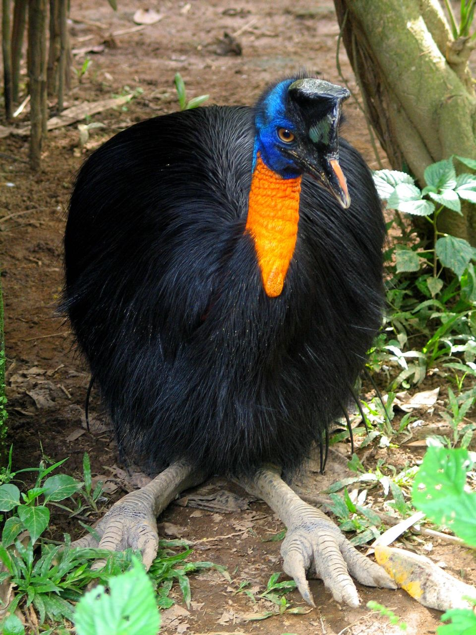 Norther Cassowary (Casuarius unappendiculatus) at Bali Bird Park. Front from head to toe.